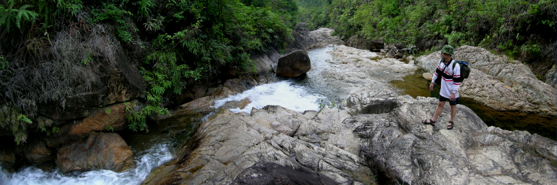 Ling Yeu Jou, my pictures of Berkelah Falls. All pictures taken on a NIKON 5400, edited using Photoshop. All images are original